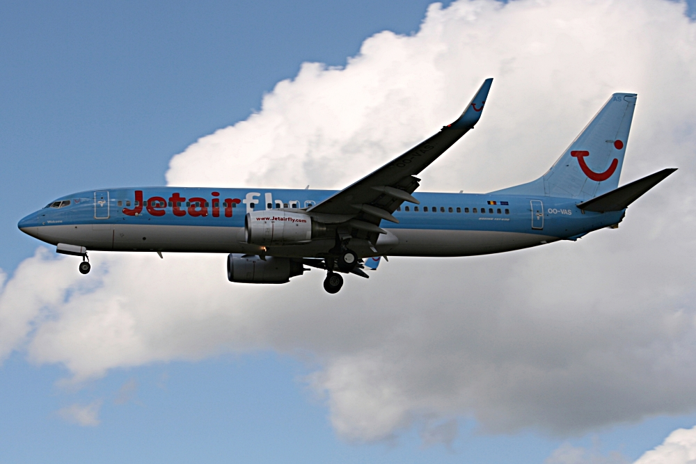 Jetairfly Boeing 737-800 OO-VAS